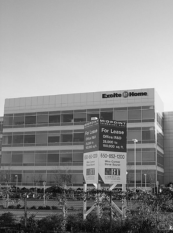 Excite@Home headquarters for sale. Original description: Headquarters of the defunct Excite@Home.